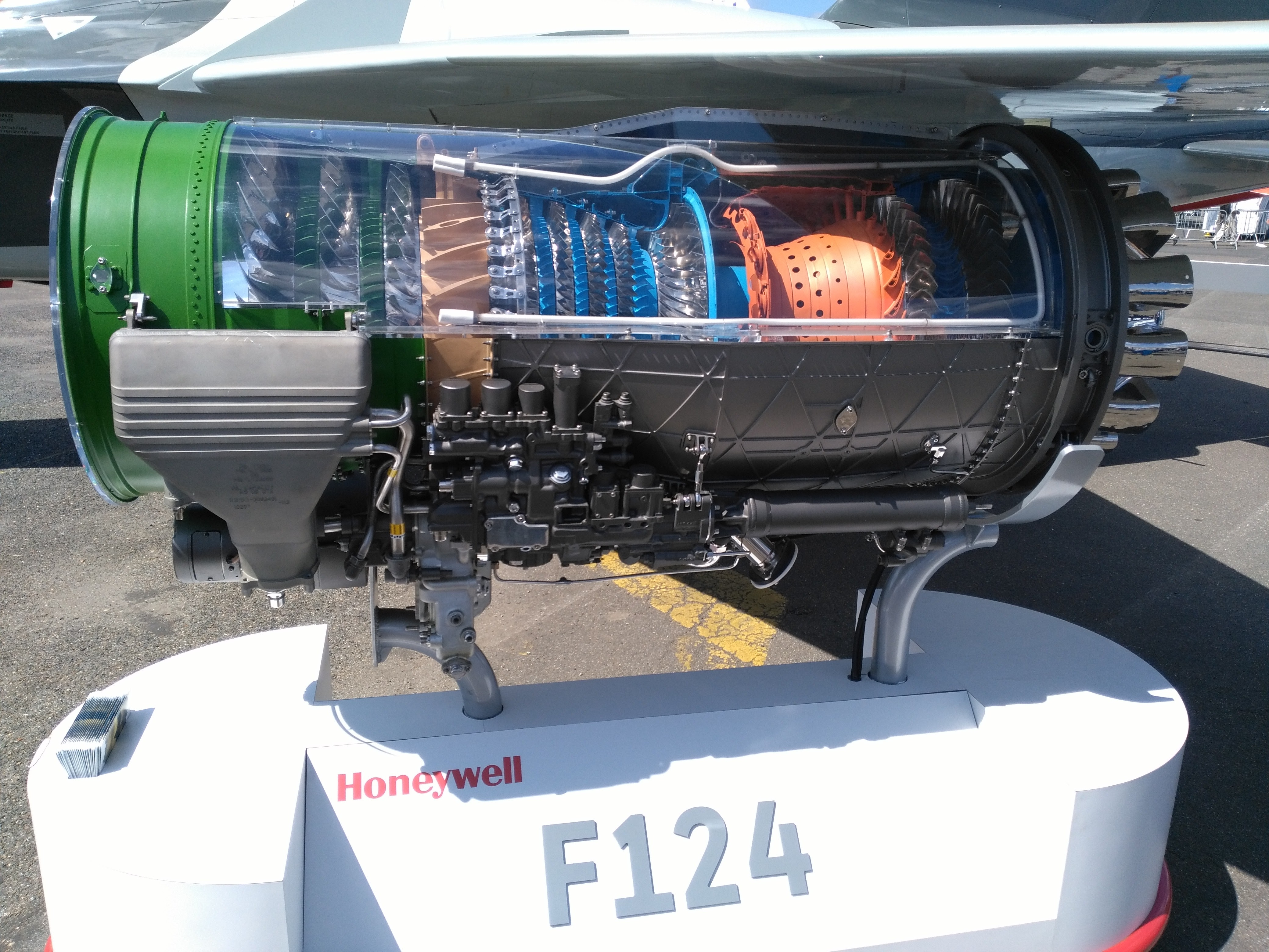 Honeywell F124 cutaway on display at Paris Air Show 2017